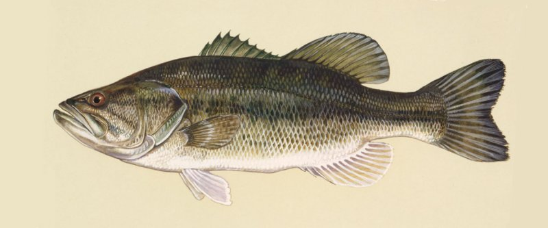 Largemouth bass.